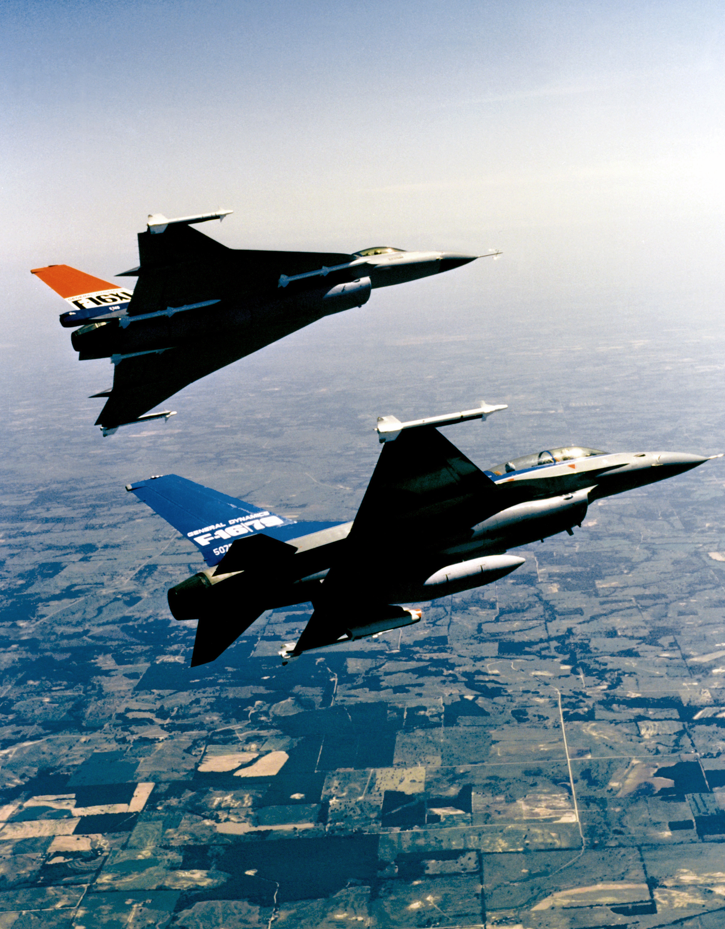 An F-16XL Fighting Falcon aircraft, armed with AIM-9 Sidewinder and AIM-7 Sparrow missiles, flies with an F-16B. The F-16XL features a "cranked-arrow" wing for improved subsonic and supersonic flight, semi-conformal weapons carriage for reduced weight and drag, and fly-by-wire complete electronic flight control system.